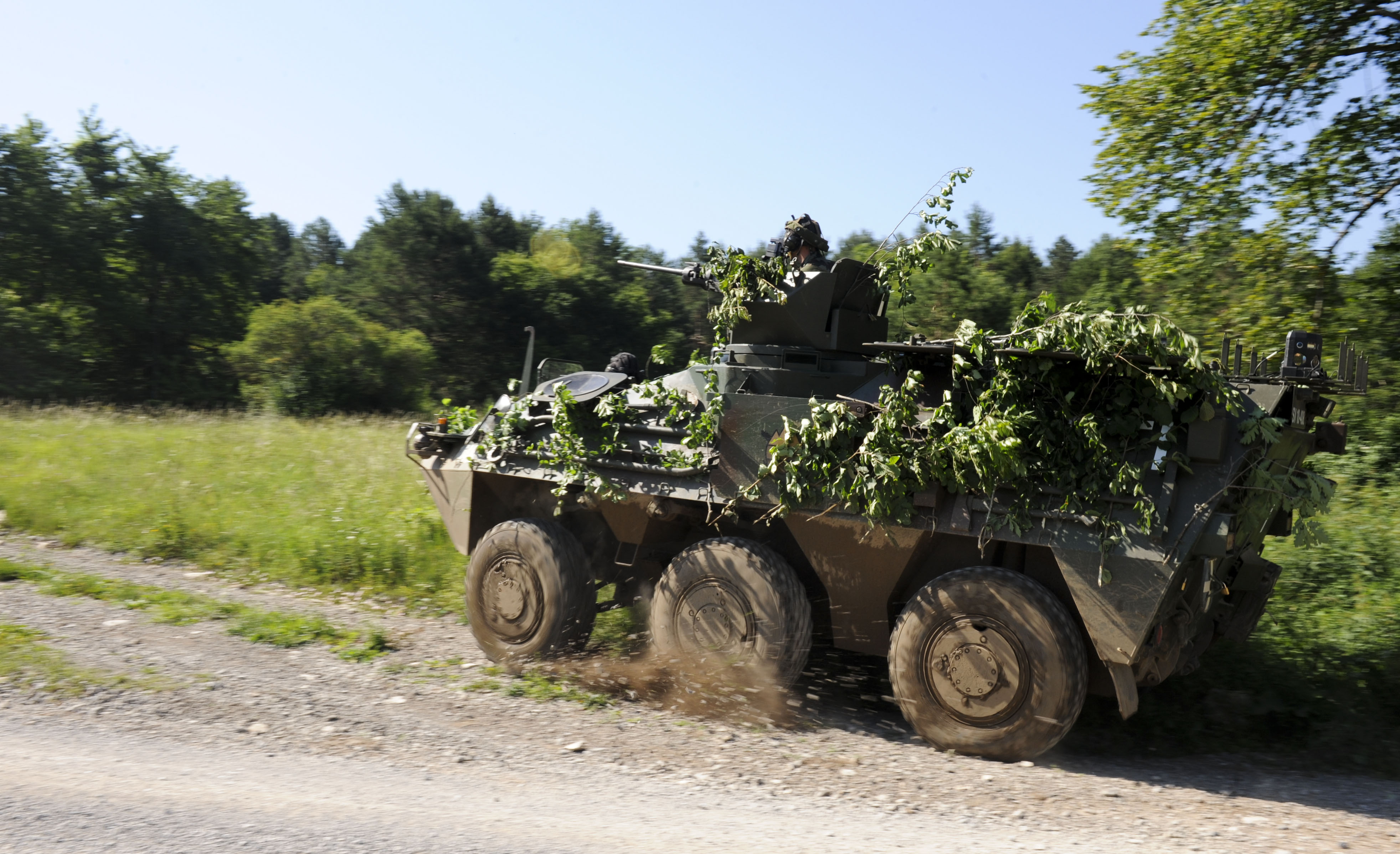 Postojna Training Ares, Slovenia. A Slovenian Armed Forces Valuk armored personnel carrier moves to support an attack during a combined company field training exercise here June 23. The Soldiers of Charlie Company, 1st Battalion 4th Infantry Regiment are training as part of a mixed company with the SAF’s 1st Company, 20th Motorized Battalion as a military to military exercise and part of an evaluation procedure for the Slovenian forces before the SAF heads to Hohenfels in Oct. for their final evaluation.